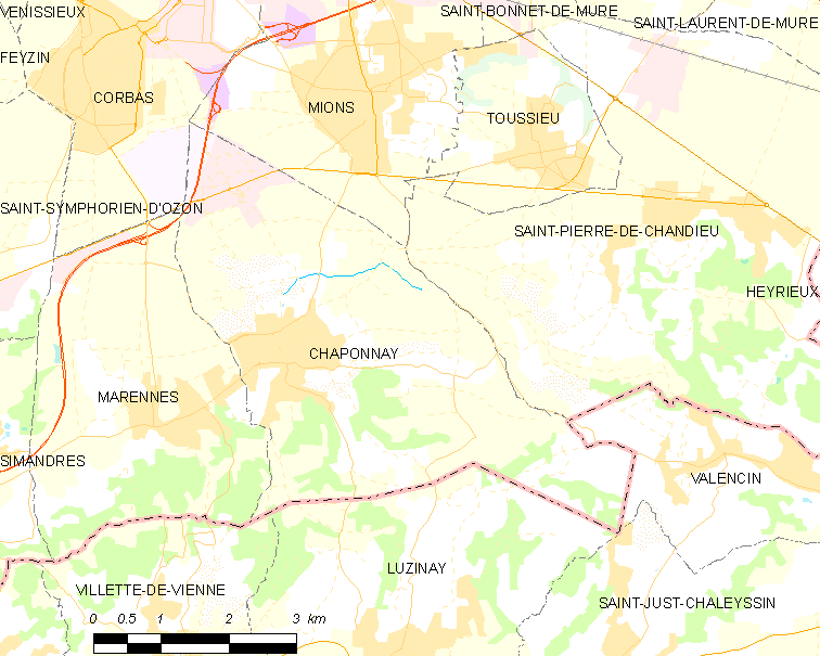 Map of French municipality